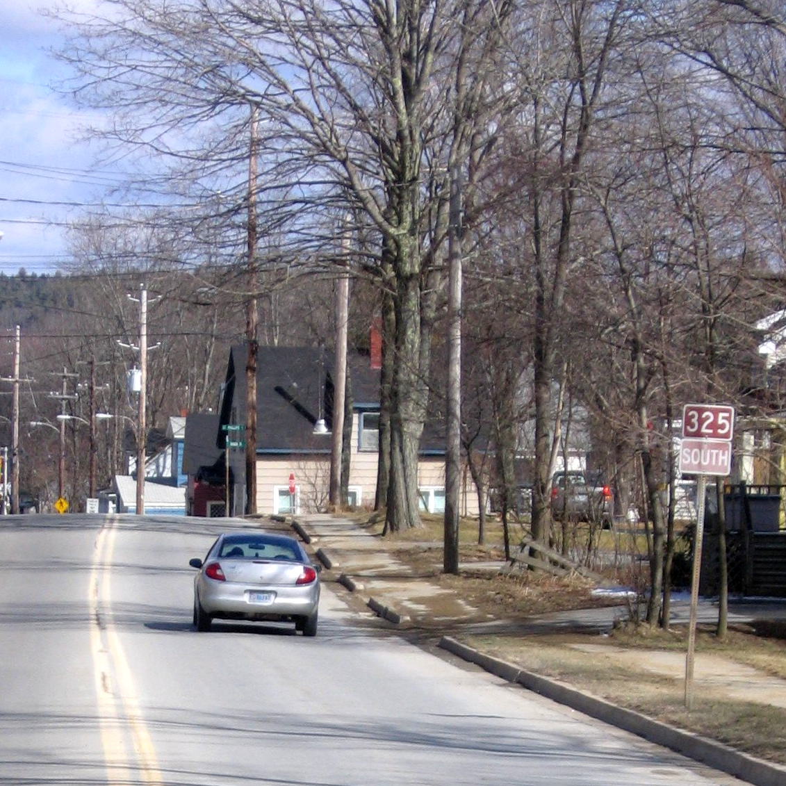 Route sign at roadside